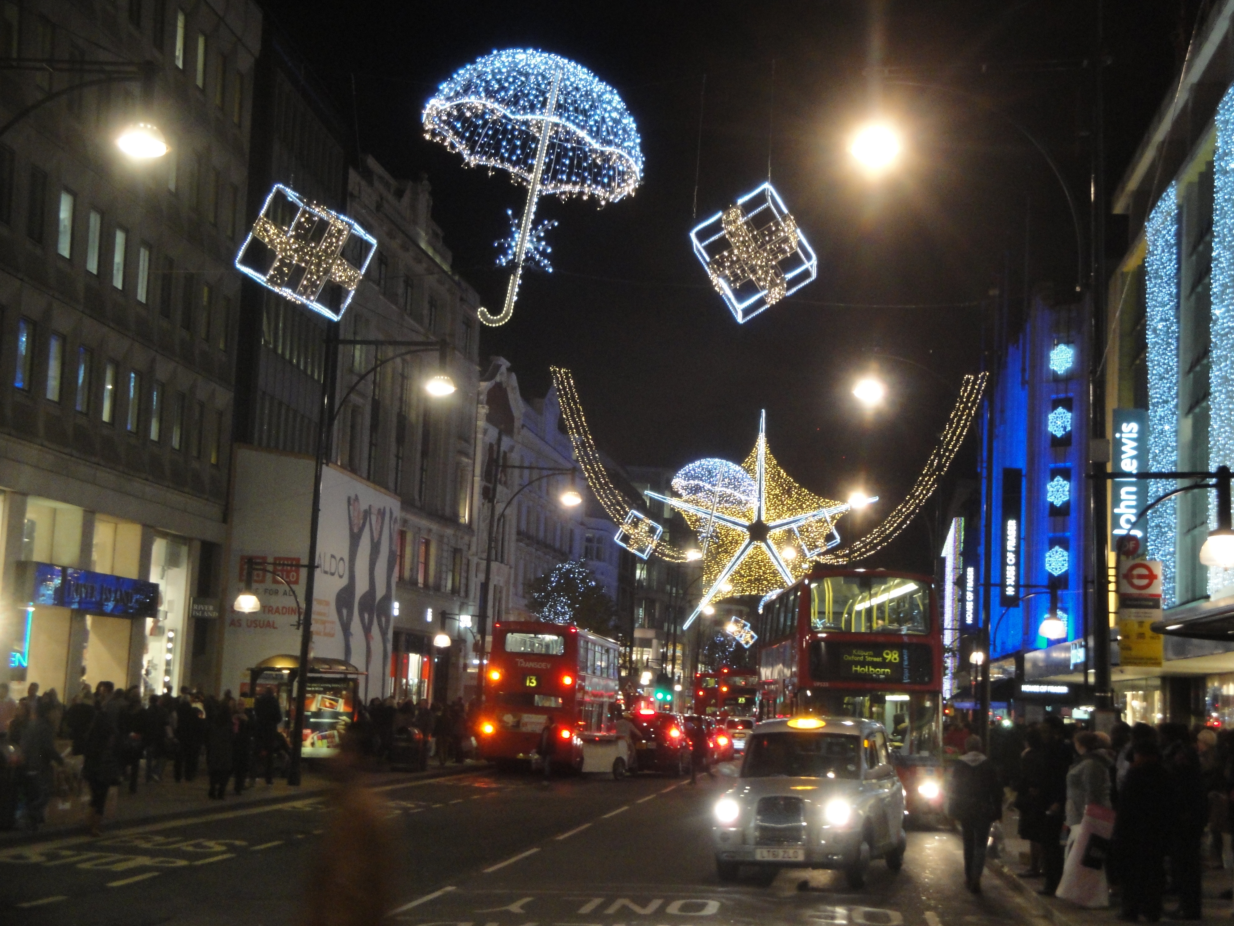 Christmas decorations along Oxford Street, Westminster (borough), London, in November 2011.